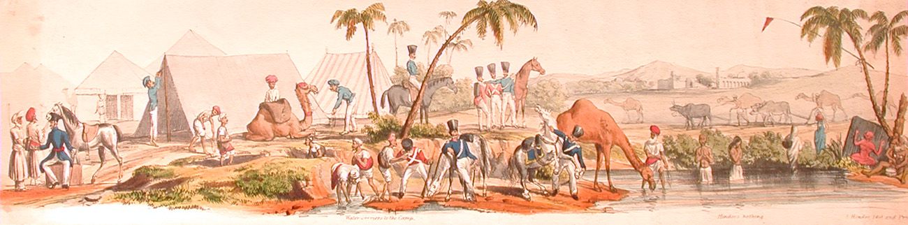 Bengal Troops on the Line of March. Accession Number: 1990.1395.2. Credit Line: Edwin Binney 3rd Collection.